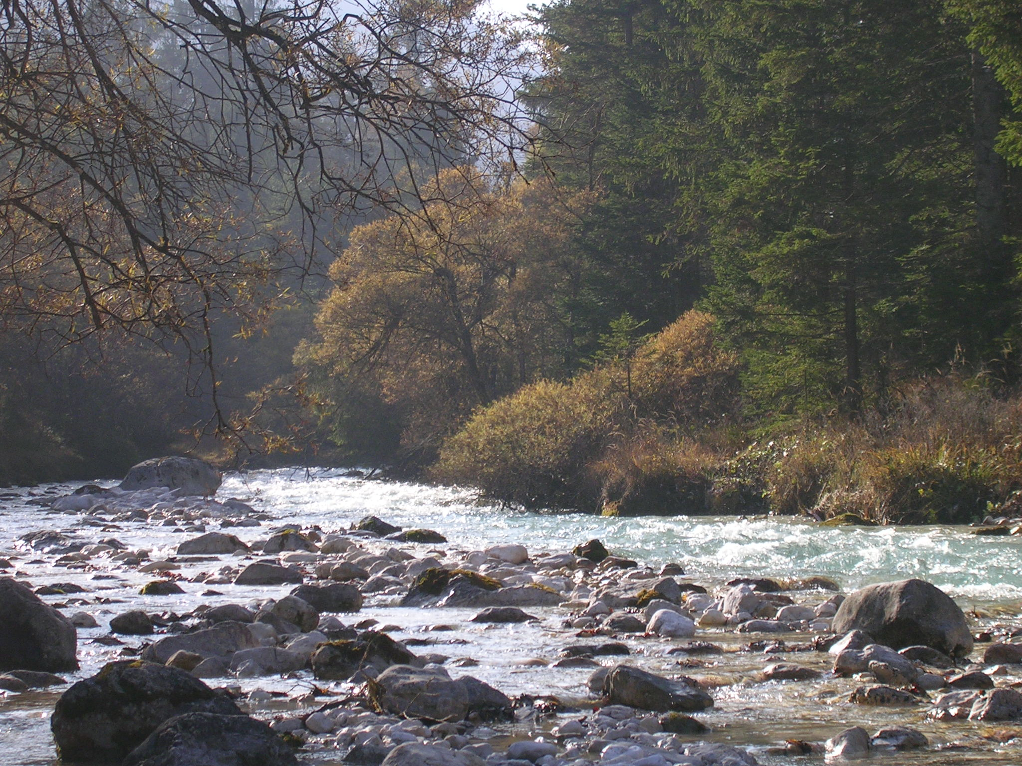 Nebula on Bistrica river, Mojstrana,Slovenia